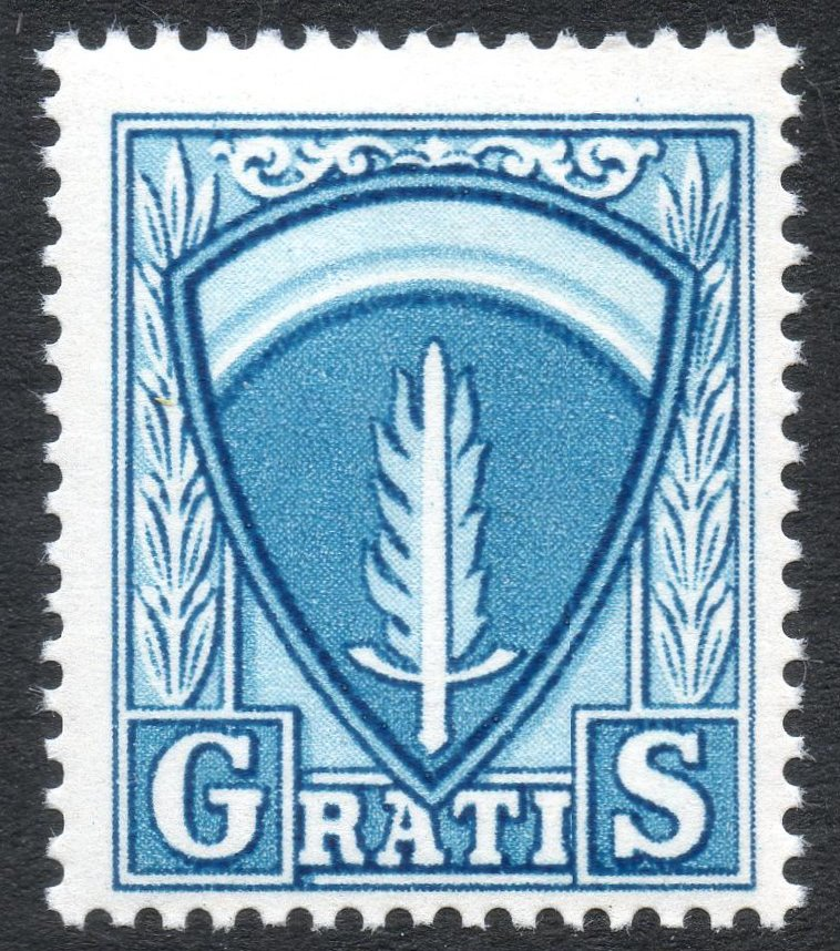 1948 franchise stamp of the Allied Military Government to permit exemption from the Travel Permit Fee when crossing borders.